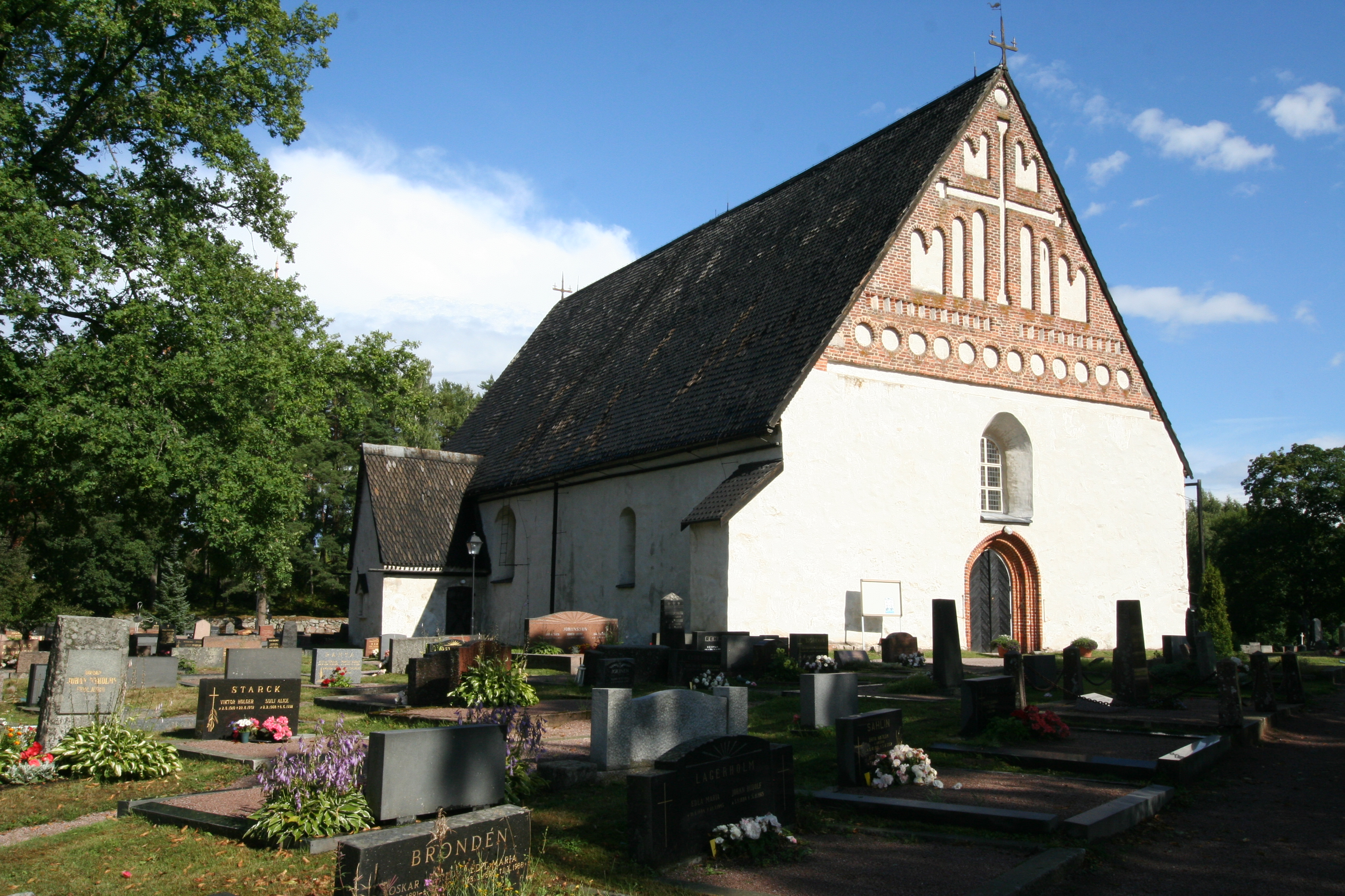 St Michael Church, Pernå, Finland